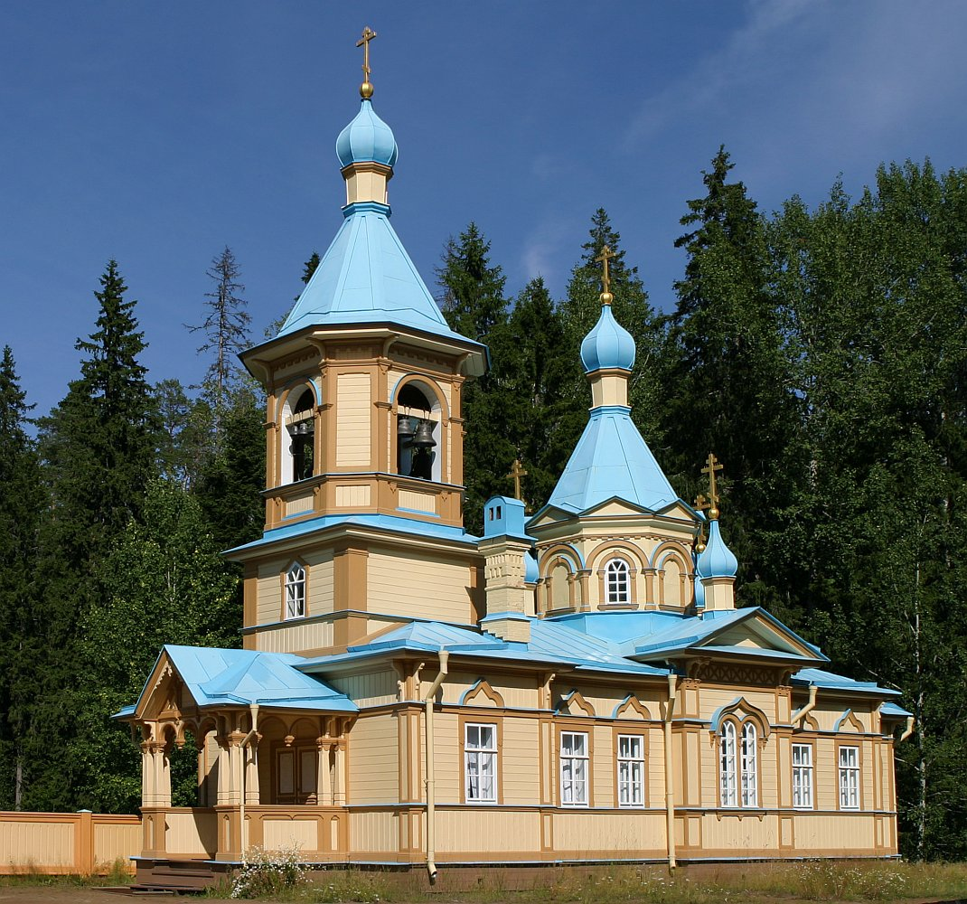 Valaam. Gethsemane Skete.